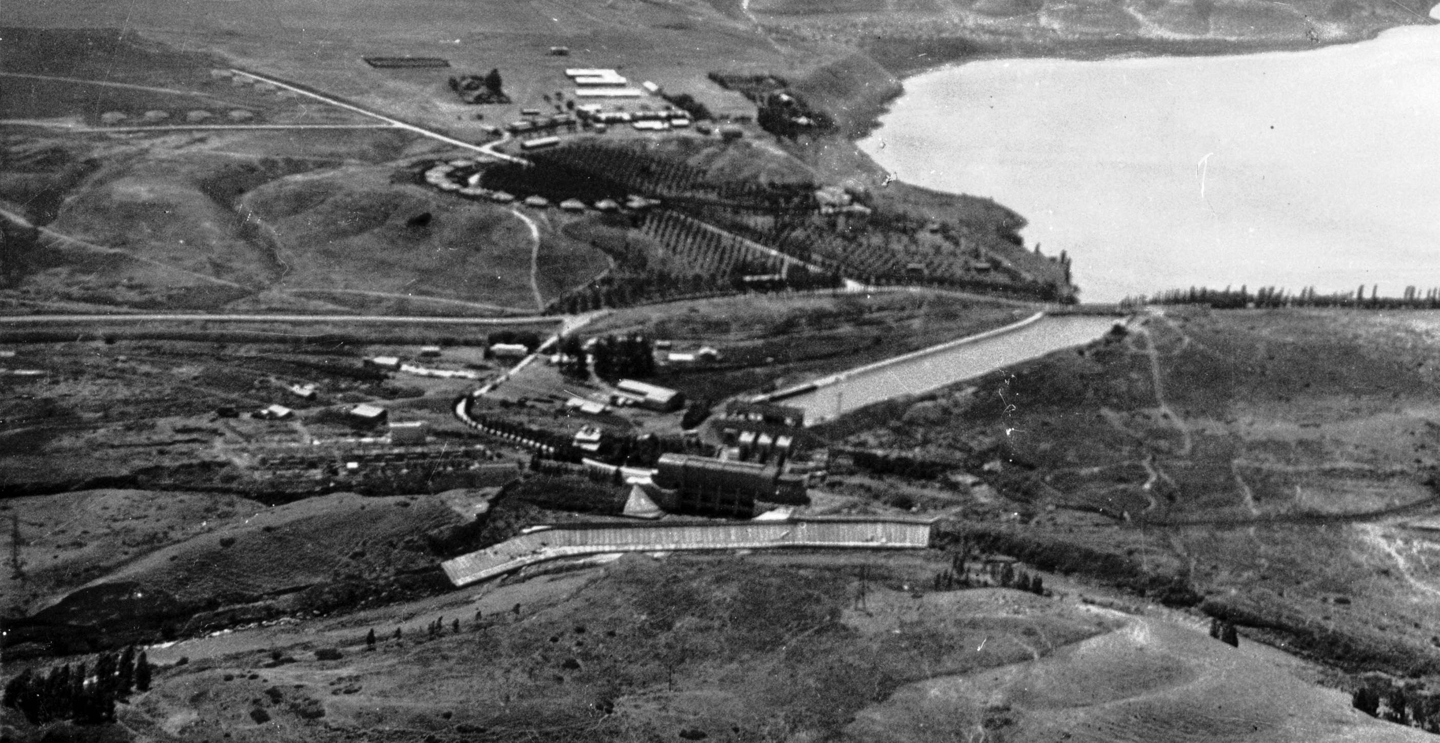 Naaraim 1898-1946 Original caption: “View of plain and lake, probably in Palestine”